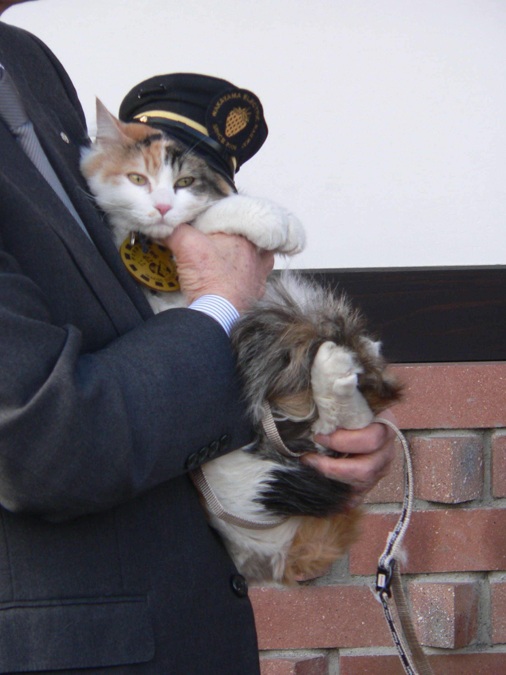 NITAMA, the stationmaster of Idakiso Station, Wakayama Electric Railway, located in Wakayama, Japan.